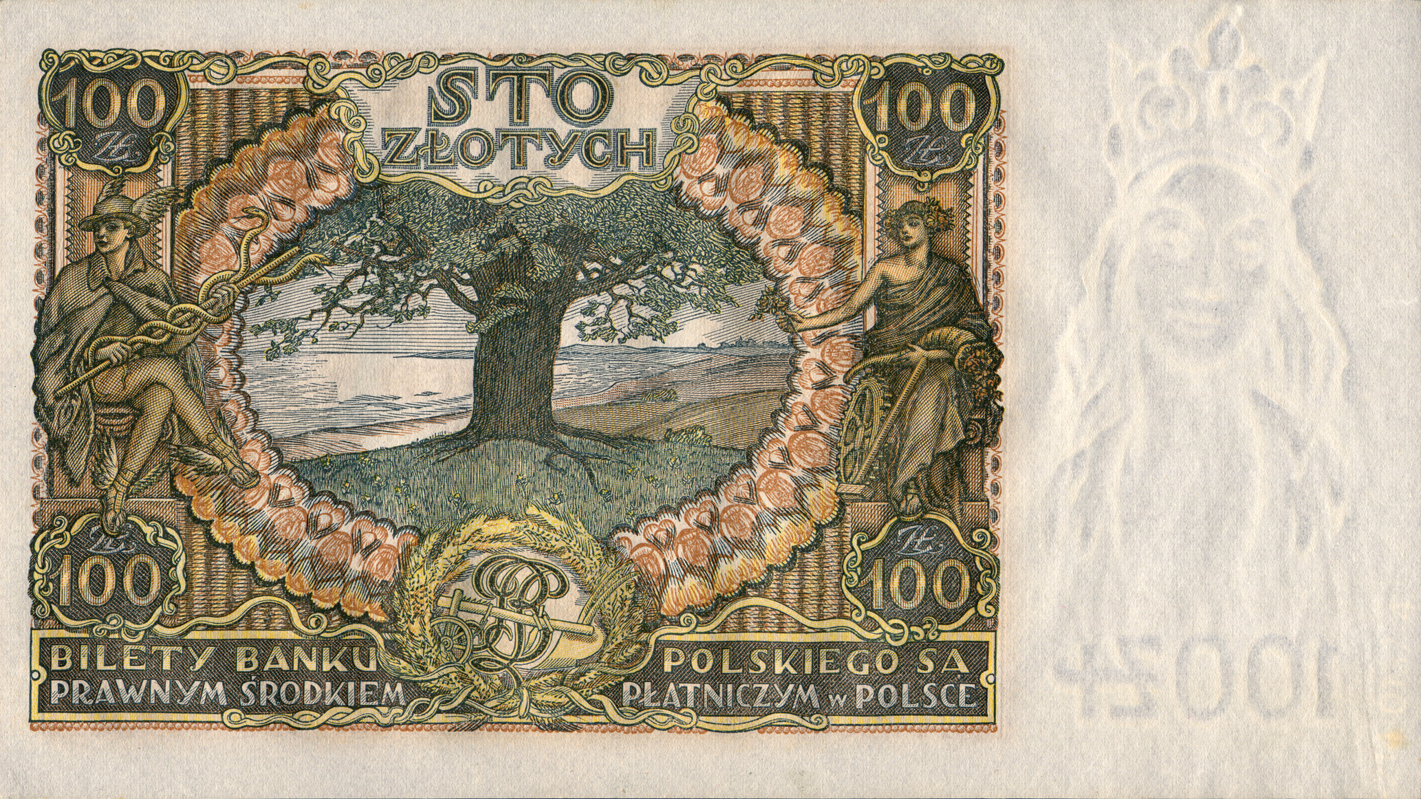 POlish 100 złoty banknote